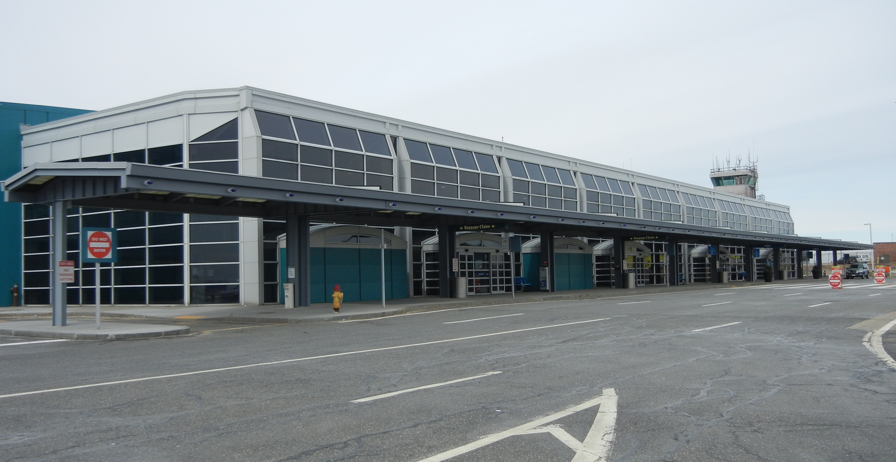 Worcester Airport Curbfront